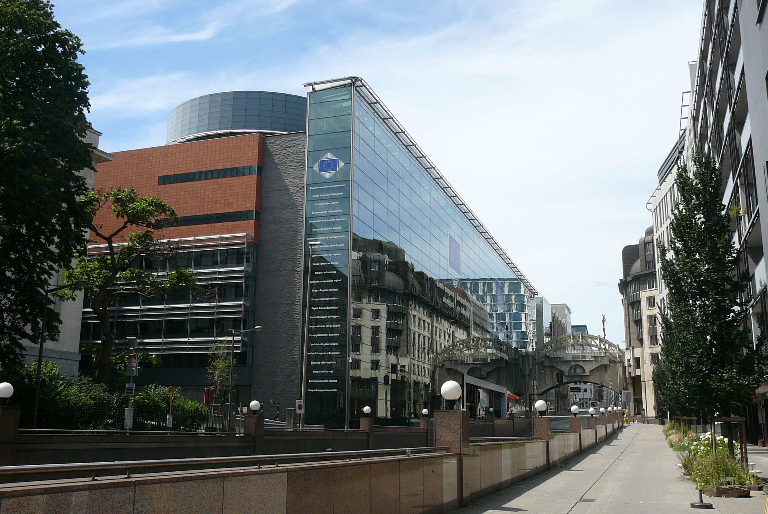 Jacques Delors Building, headquarter of the European Committee of the Regions and the European Economic and Social Committee, in Brussels, Belgium